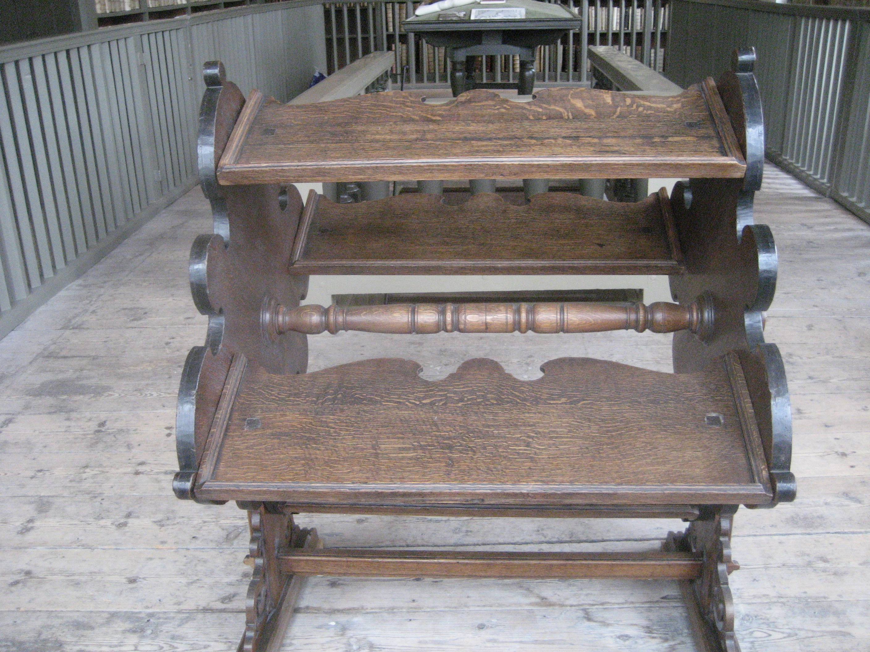 Bookwheel at Bibliotheca Thysiana Leiden (the Netherlands) -2016. This bookwheel was probably made in the first half of the 17th century.